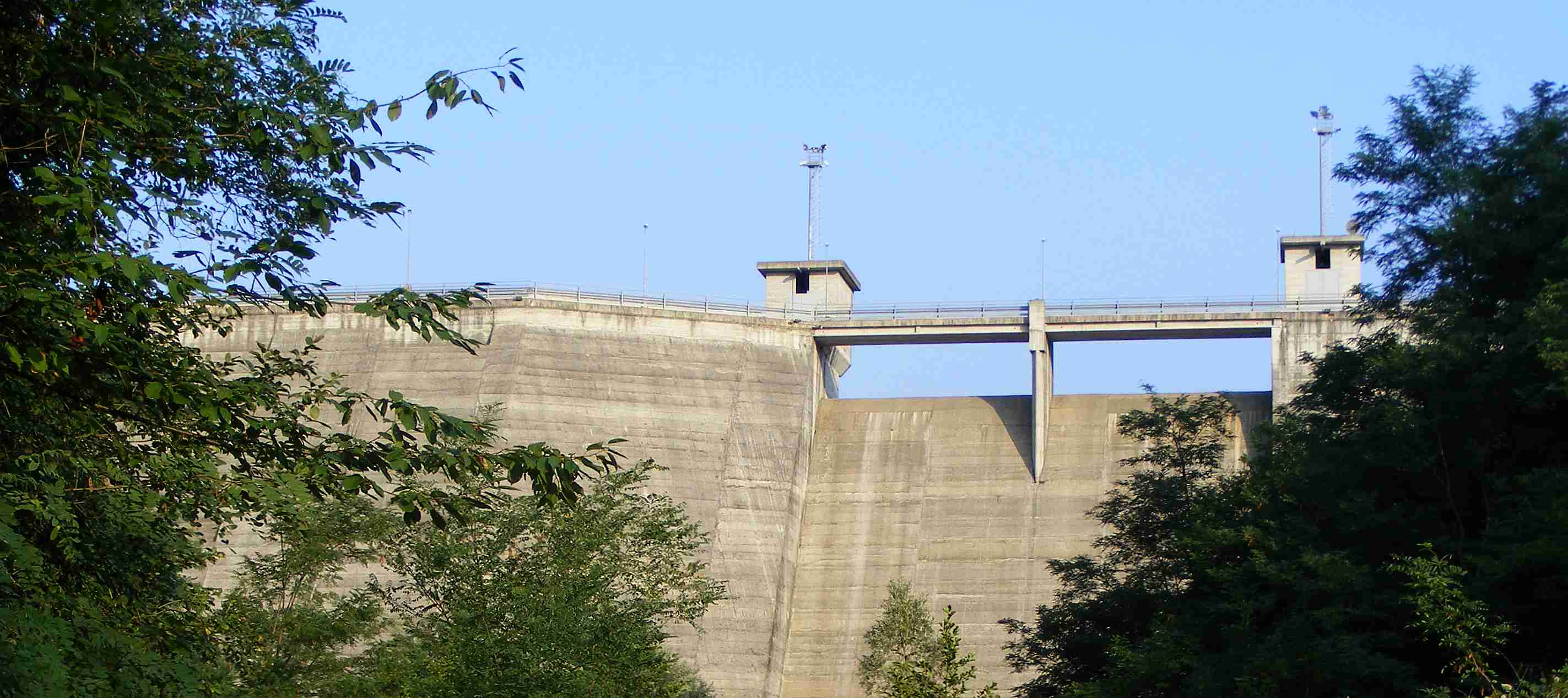 Ravasanella dam near Castelletto Villa (Roasio, VC, Italy)